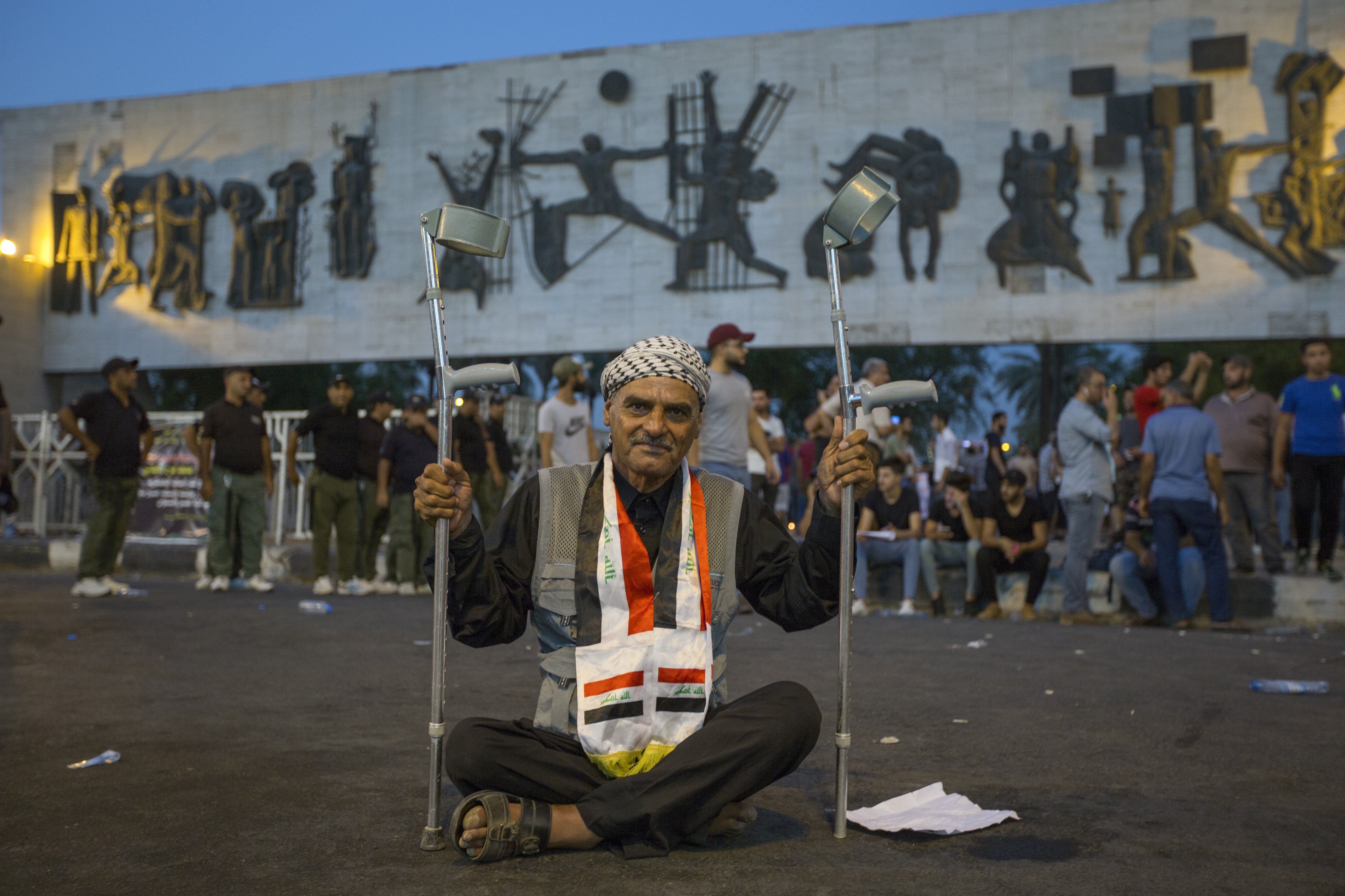 A handicapped protester sets his crutch against a riot police in the October Revolution - Photo by Mostafa Nader